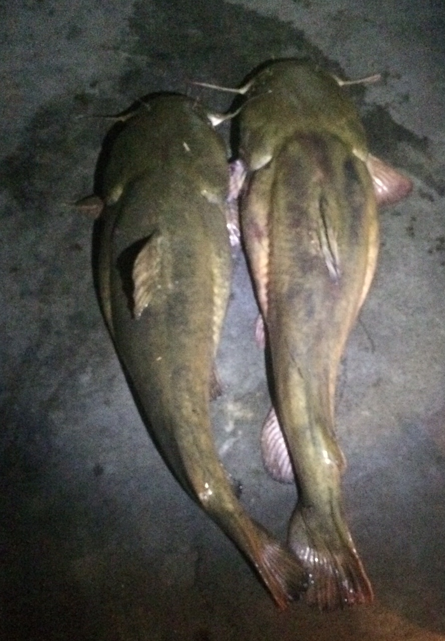 These two mature 35-40 pound catfish were caught in the Susquehanna River during the spawn in June of 2015.